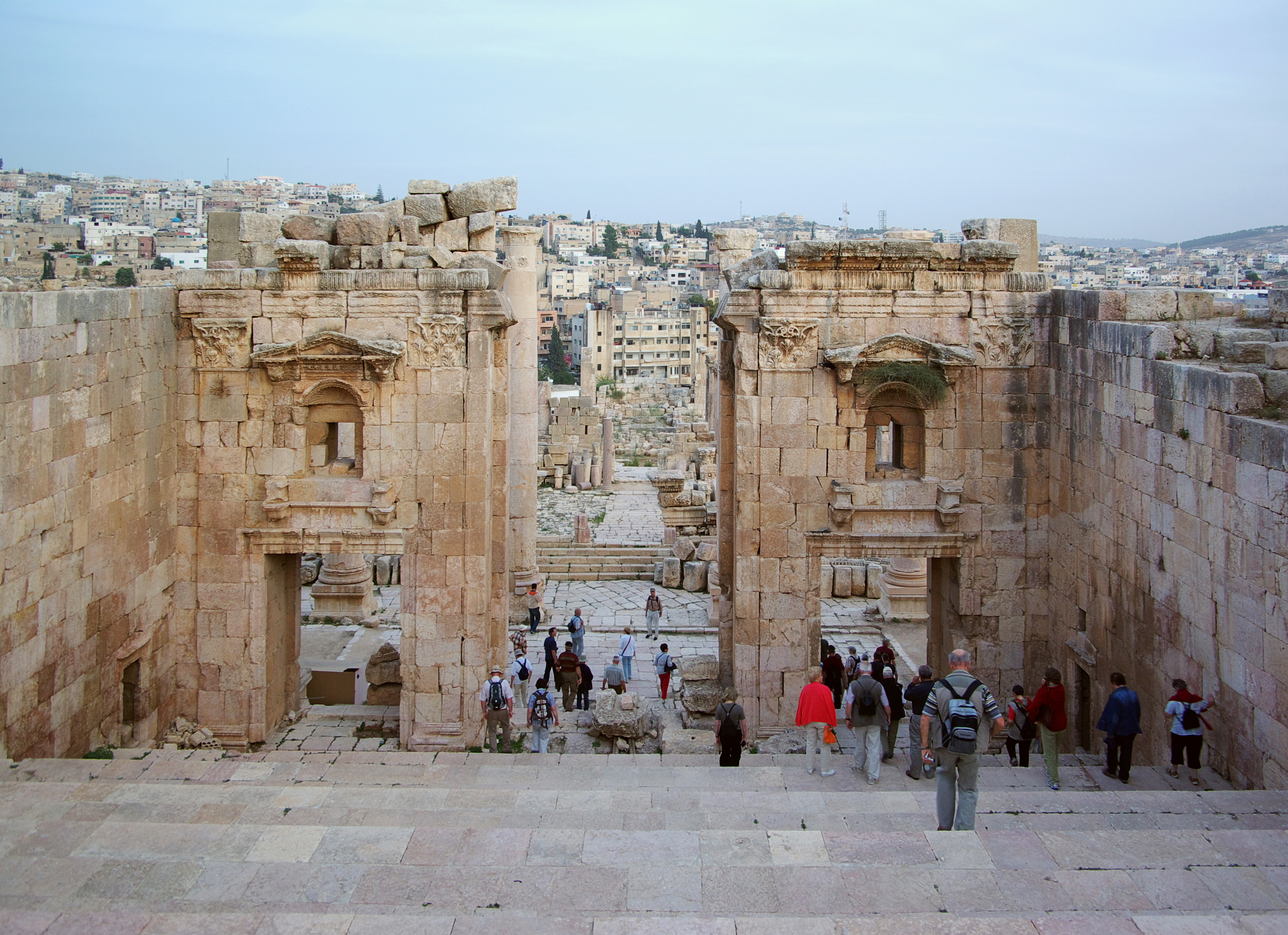 Jerash, Entrance to the Temple of Artemis